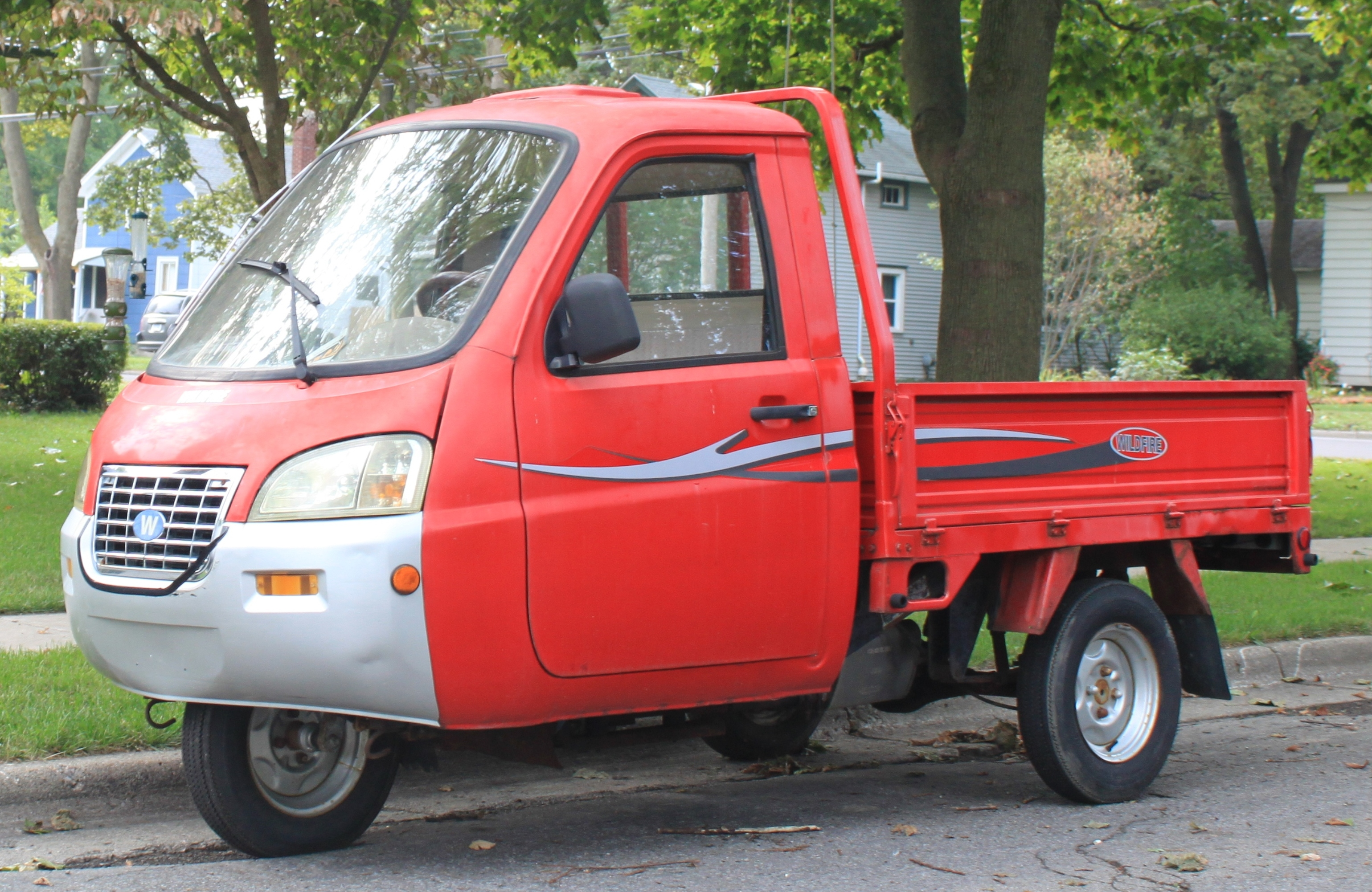 Wildfire three-wheeled vehicle, Democratic Street, Tecumseh, Michigan.